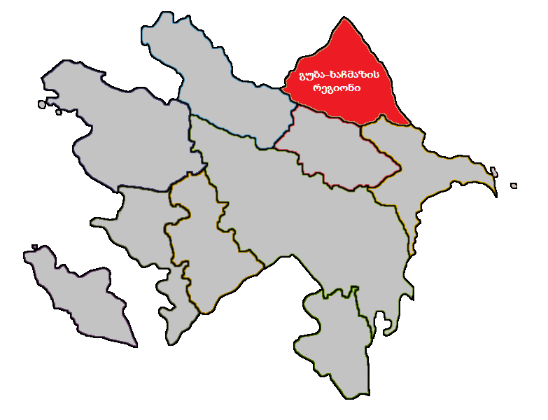 Guba-Khachmaz region.